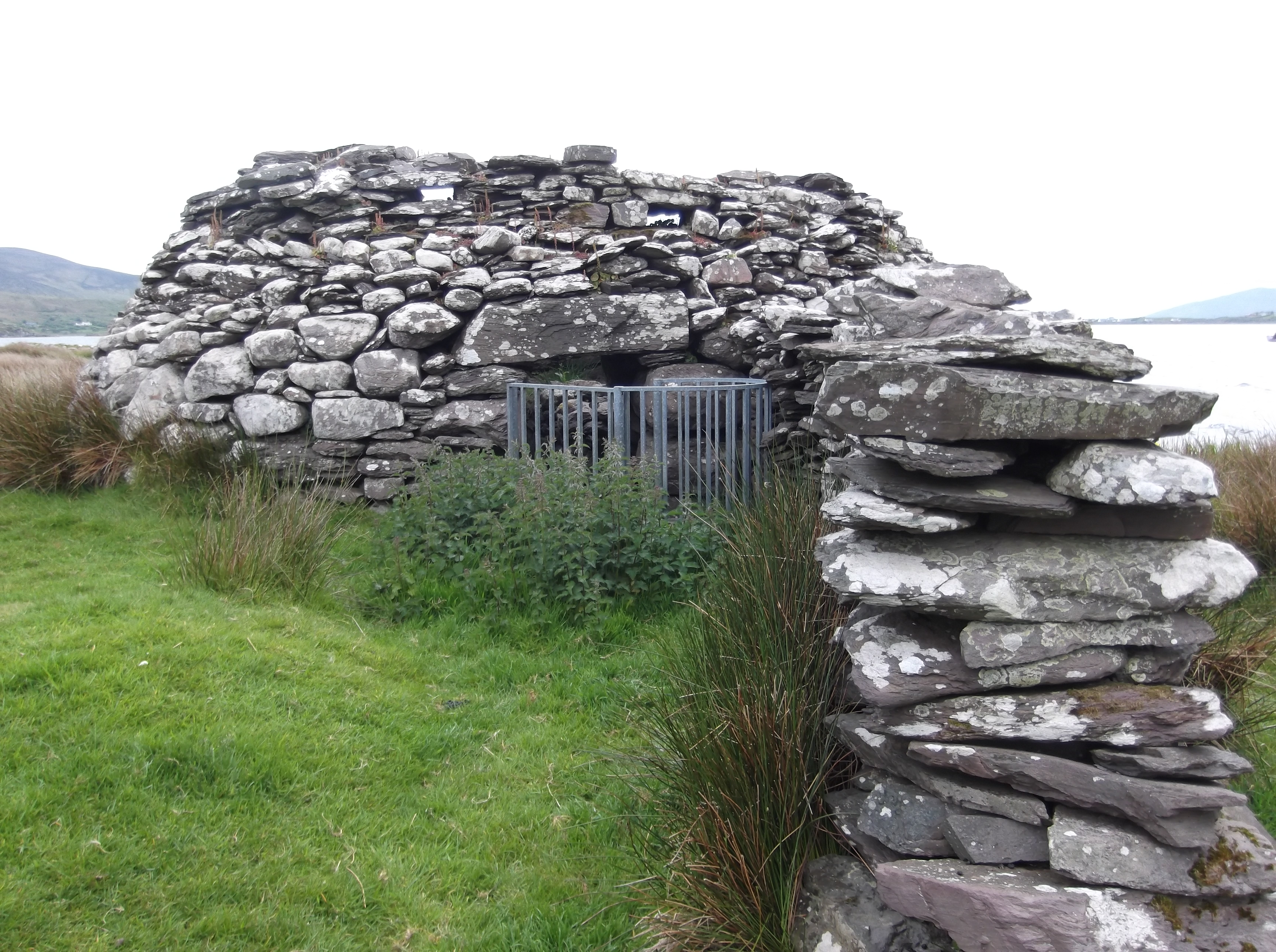 Photograph of St Finian's Cell, Church Island, Lough Currane, Co. Kerry, Ireland